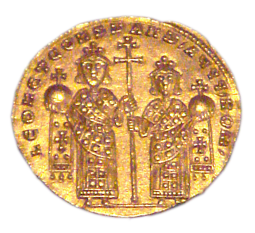 Gold Solidus of Leo VI And Constantin VII Porphyrogenetos, 908-912